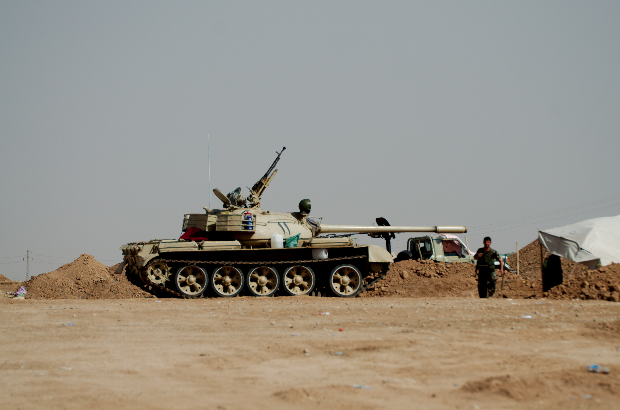 An Peshmerga tank engaged near ISIS territory - south of kirkuk